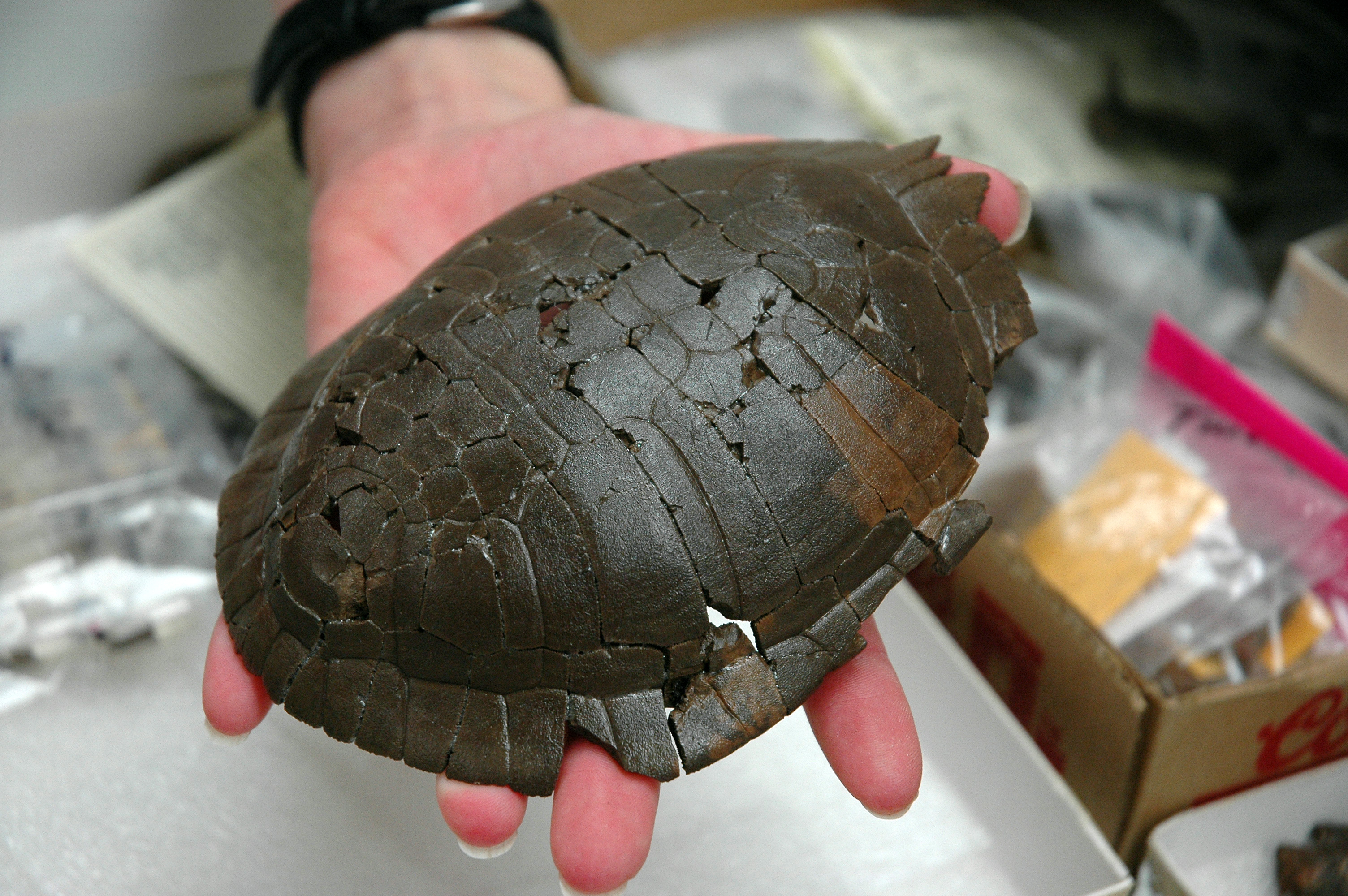 A hand holding a painted turtle (Chrysemys picta) shell from the Gray fossil site